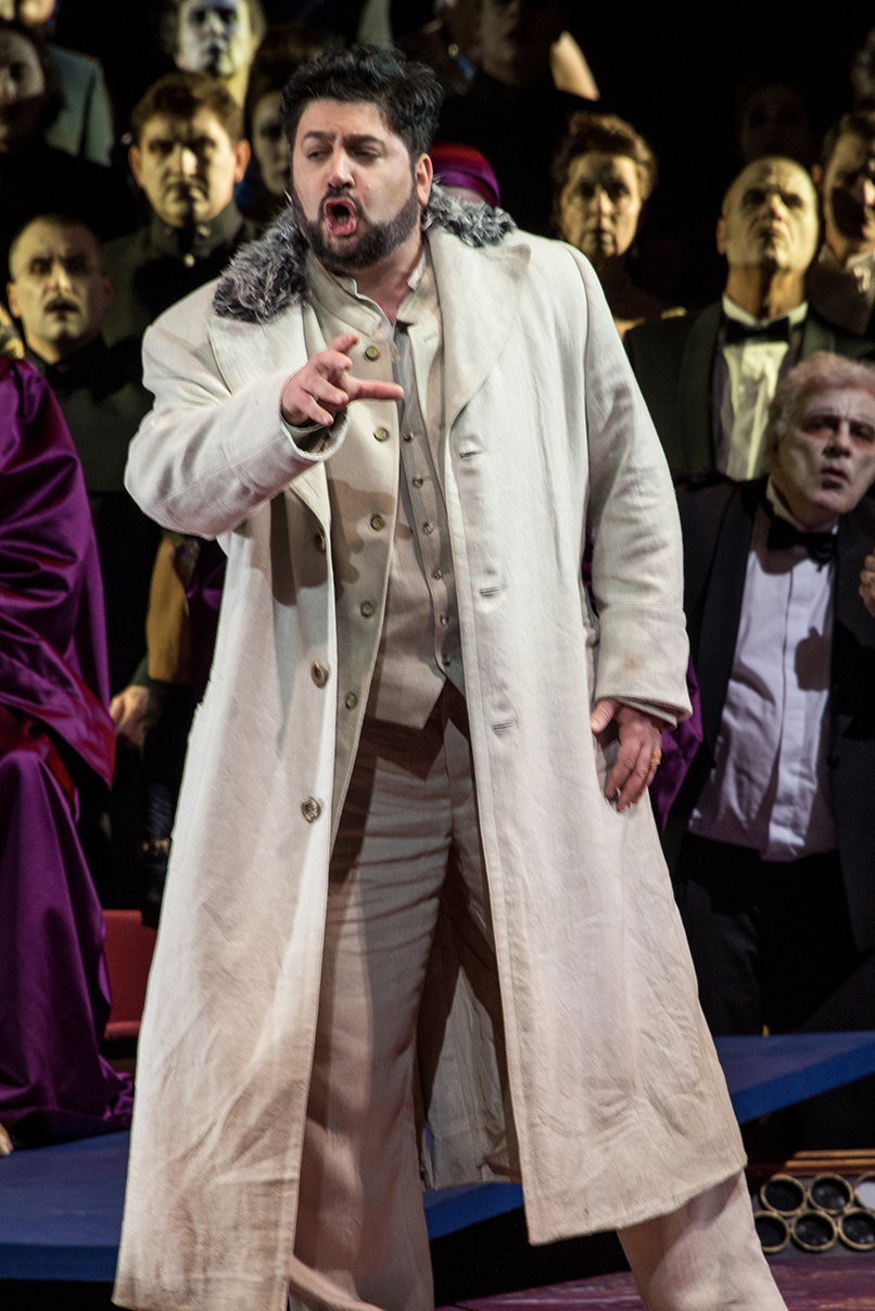 Yusif Eyvazov in the role of Calaf, "Turandot" by Puccini, Staatsoper Wien (= Vienna State Opera), April 2016